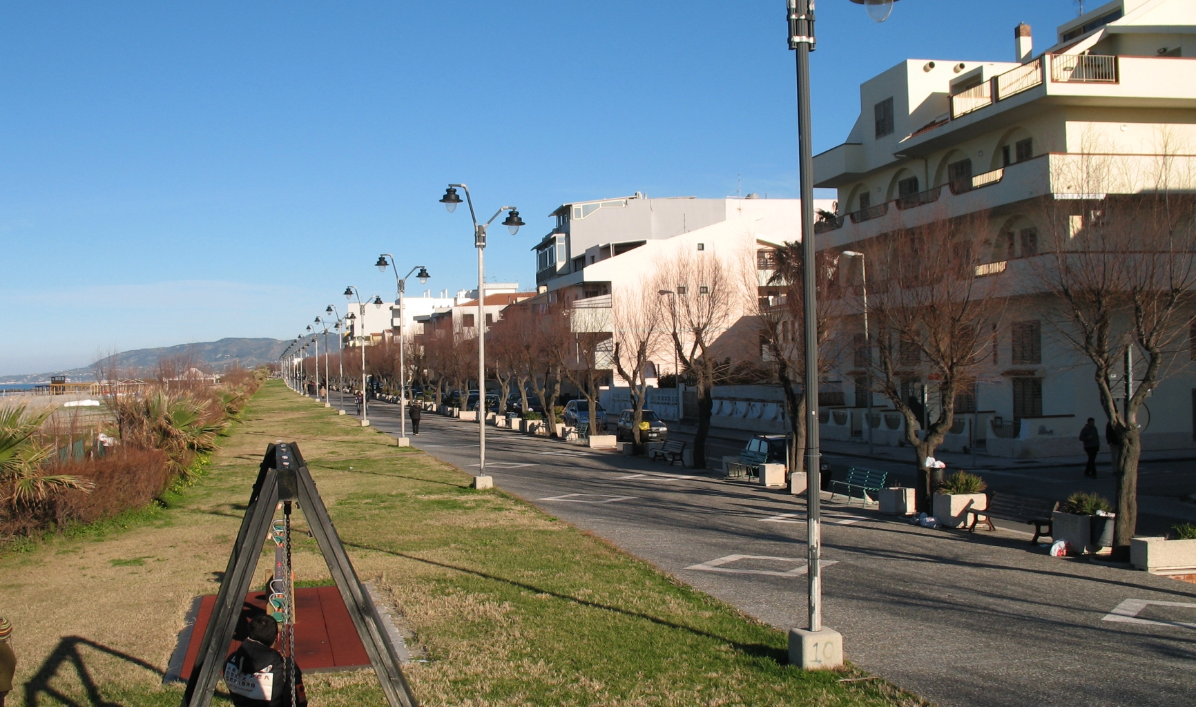 Waterfront of Venetico Marina in winter.